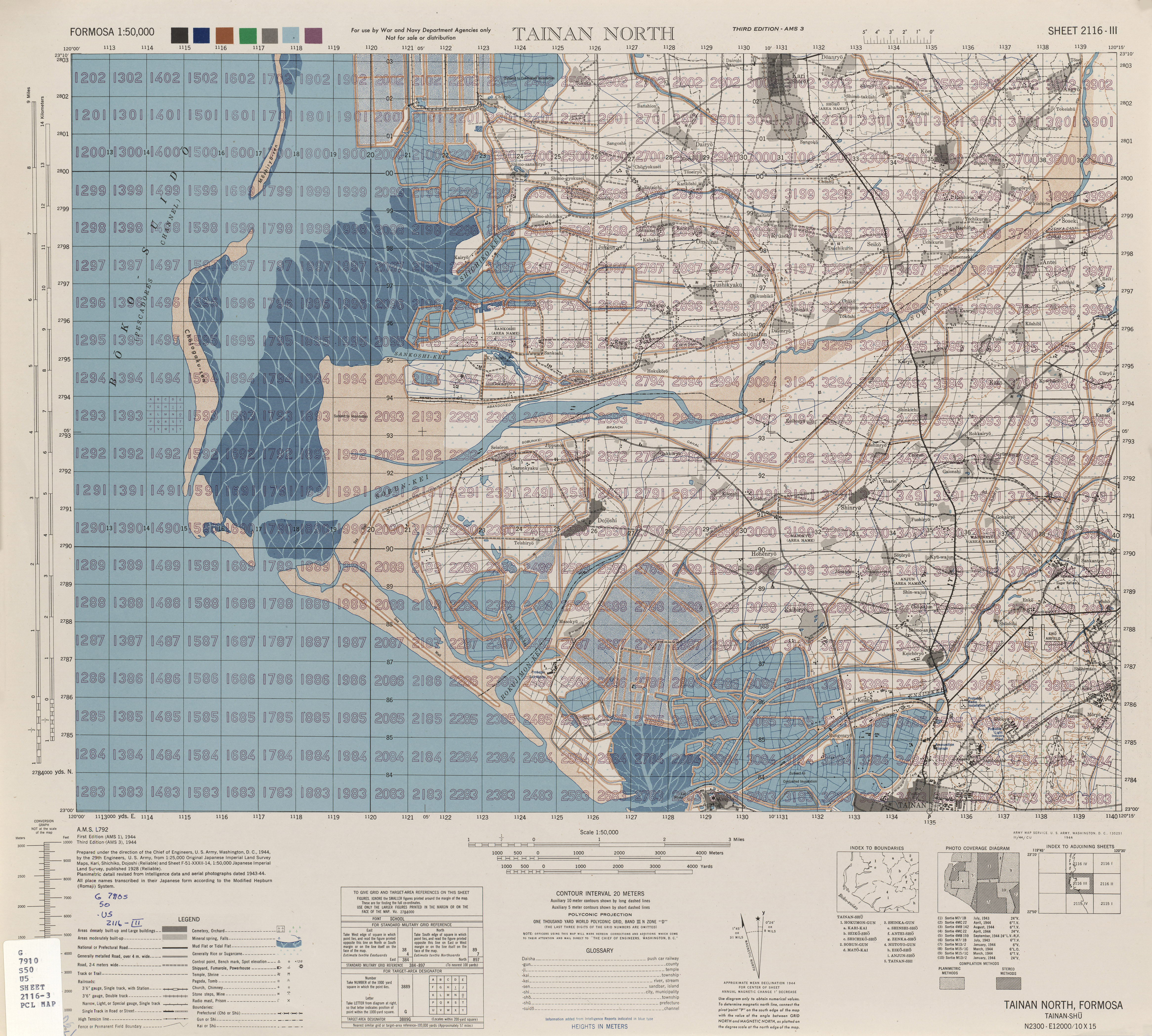 Map from Formosa (Taiwan) 1:50,000 AMS Series L792